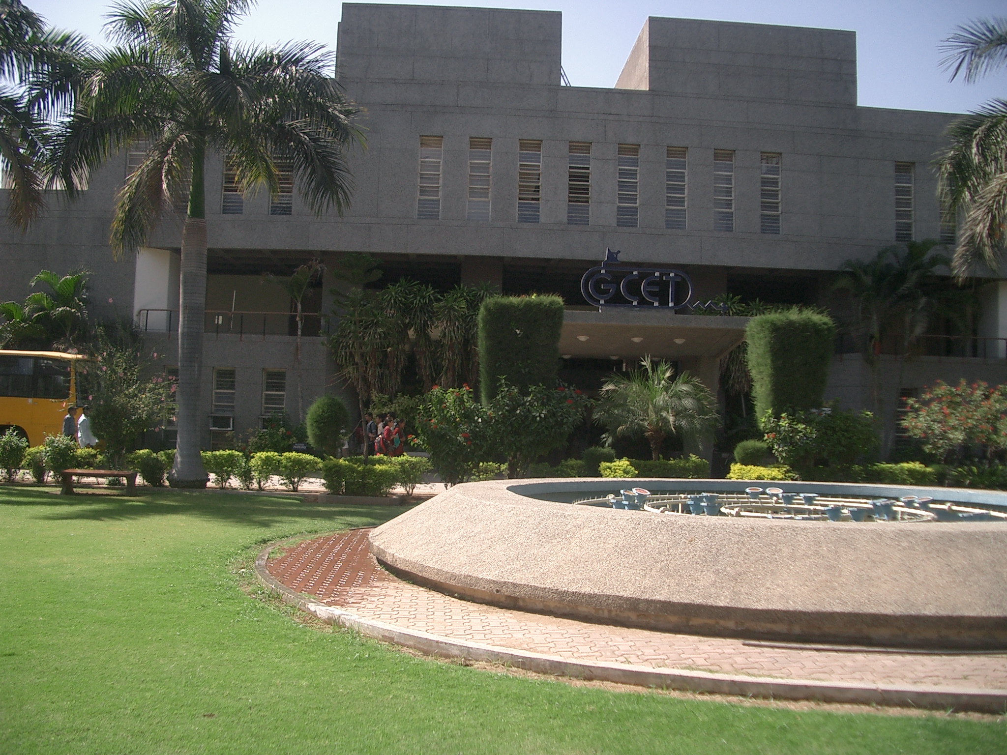 G H patel college of engineering and technology, Vallab Vidyanagar, Gujarat